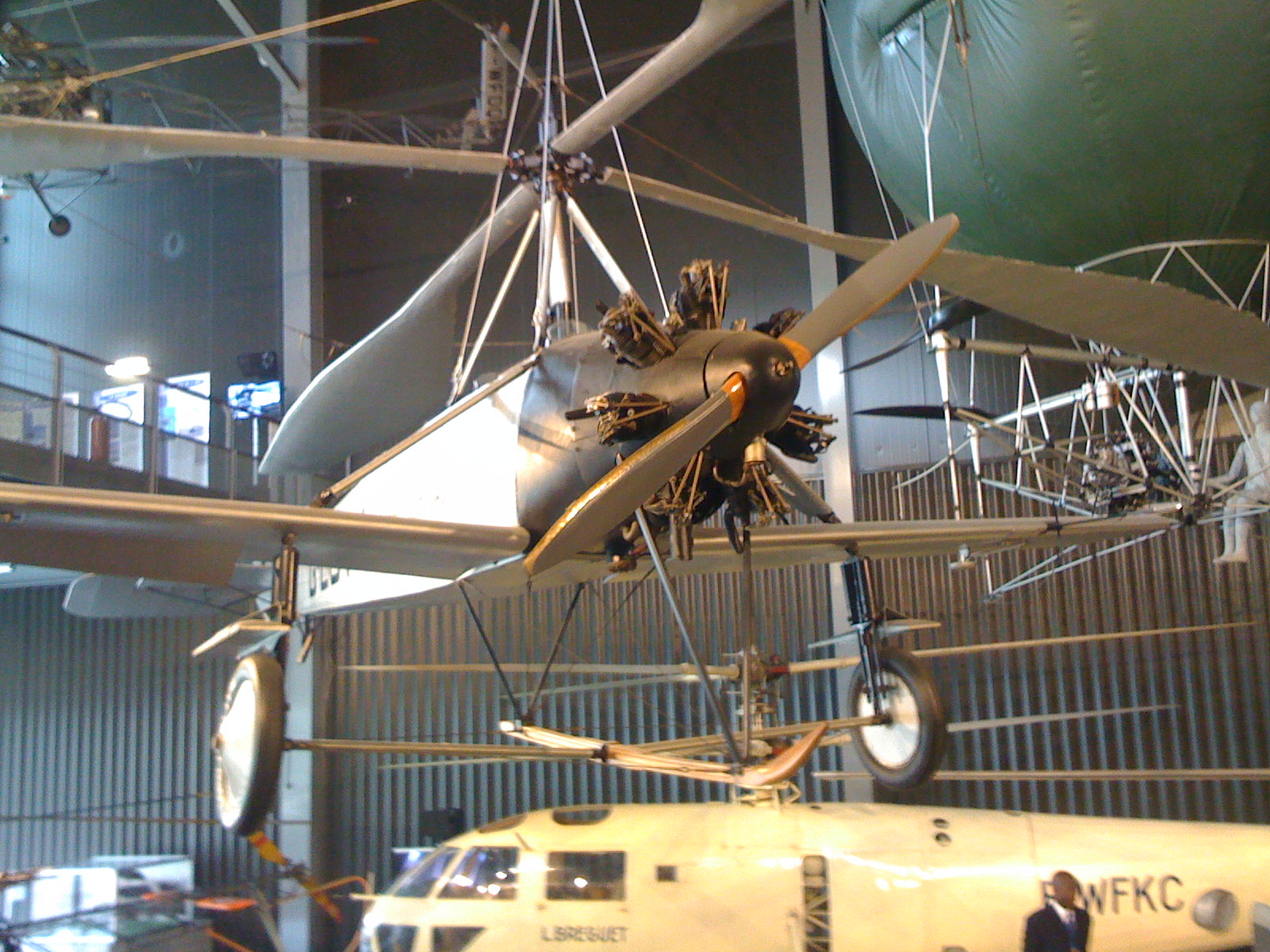 Cierva C.8L, Le Bourget Air & Space Museum